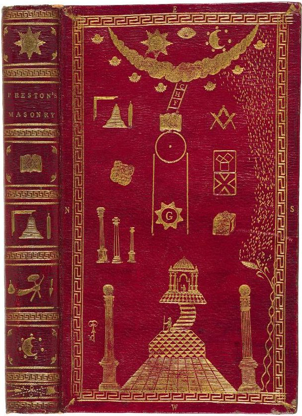 Masonic binding. English (London), 19th century. John Lovejoy. Red goatskin; the front cover filled with Masonic emblems. Lovejoy specialised in Masonic bindings.